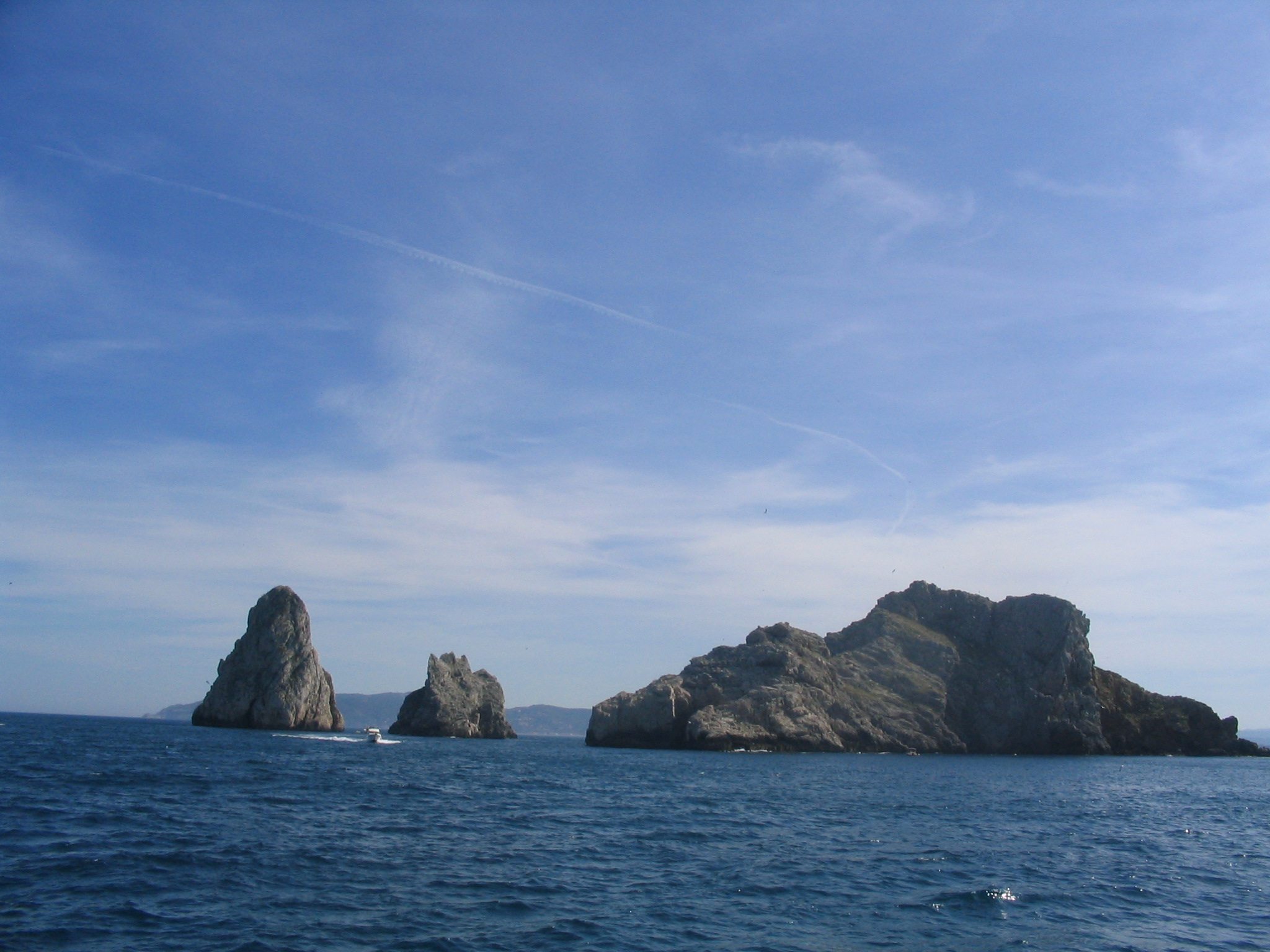 Illes Medes